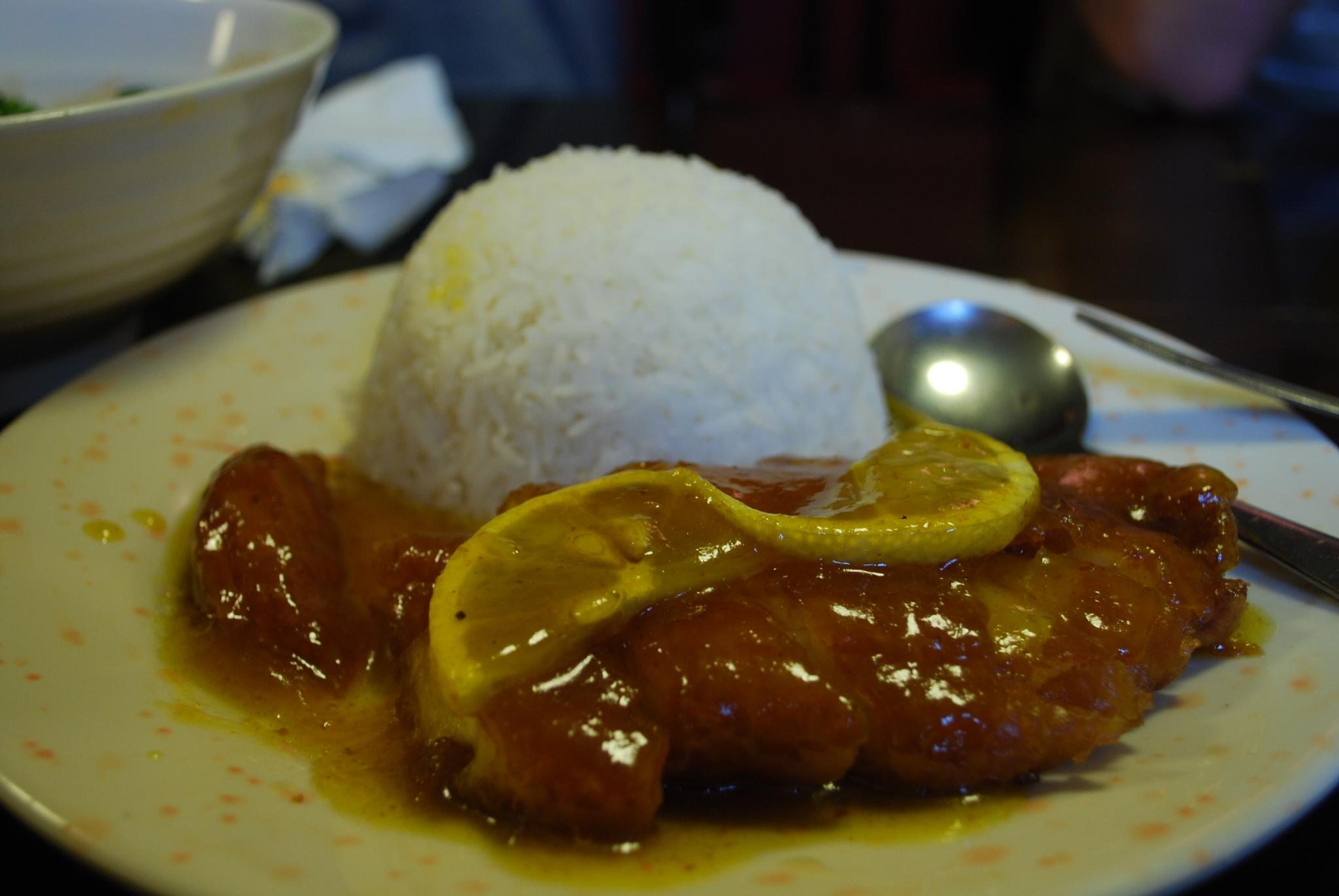 Chinese-style lemon chicken